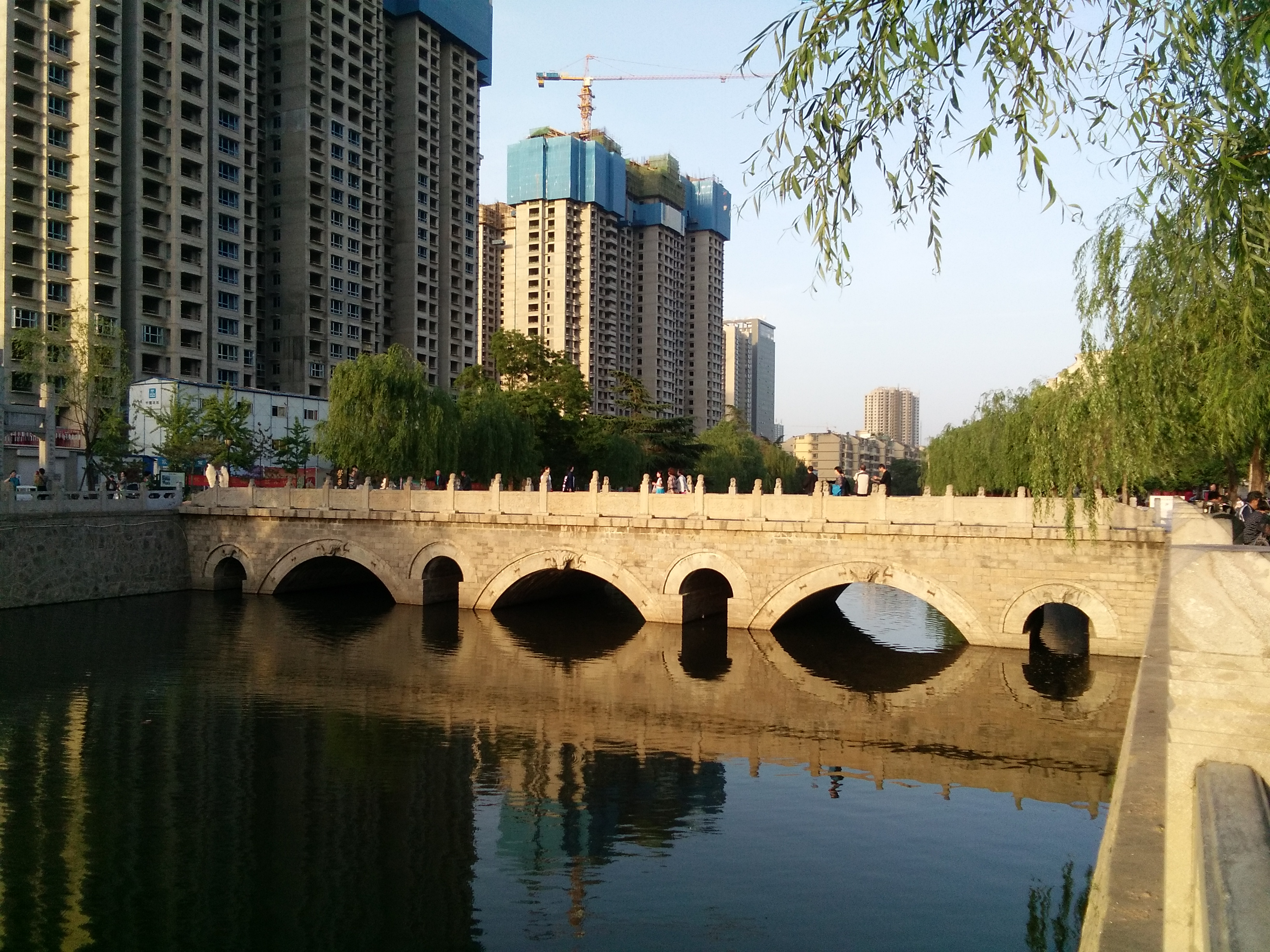 Ancient stone bridges of Xue Bu.